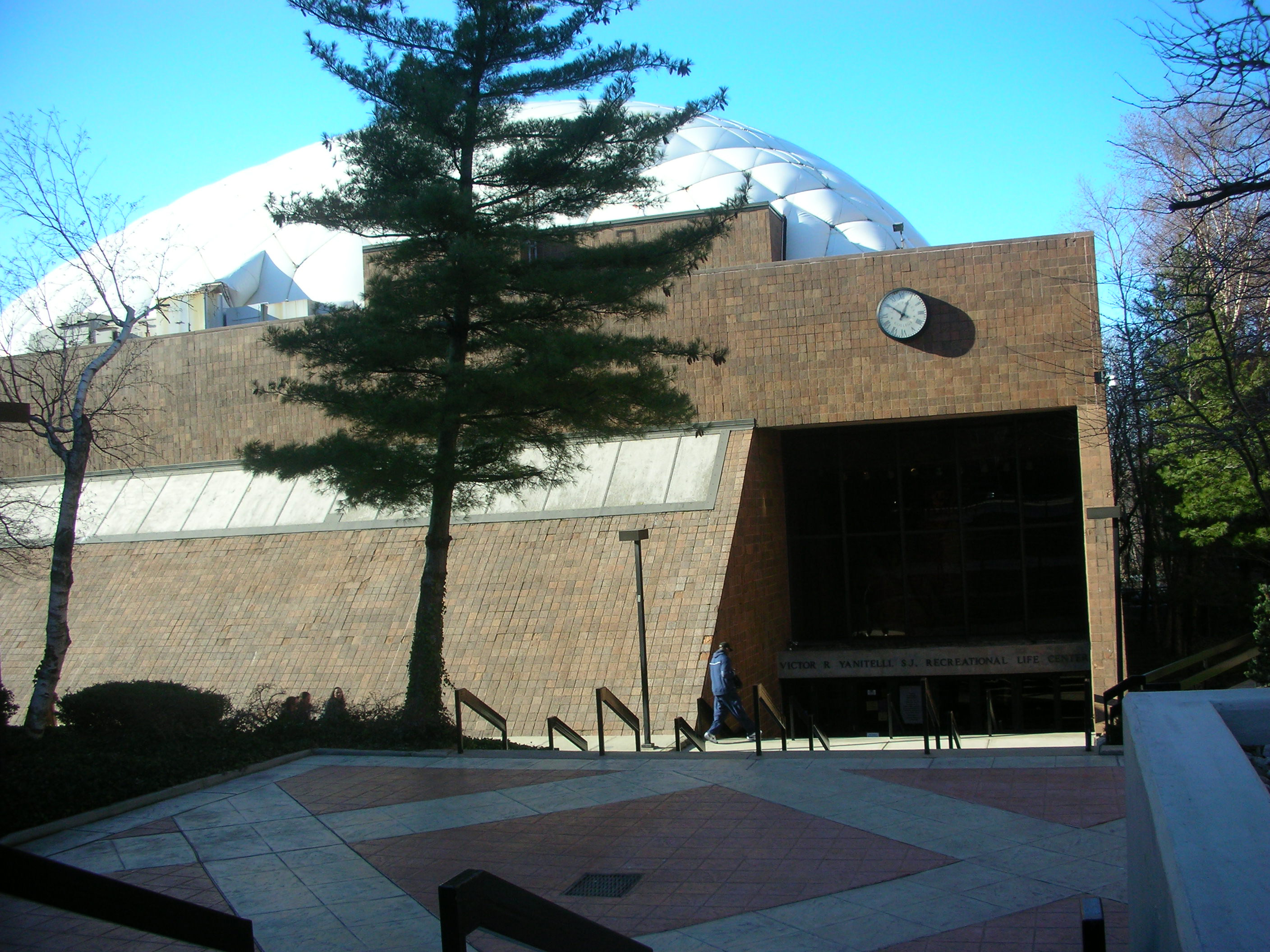 The Yanitelli Center on the campus of Saint Peter's College in Jersey City